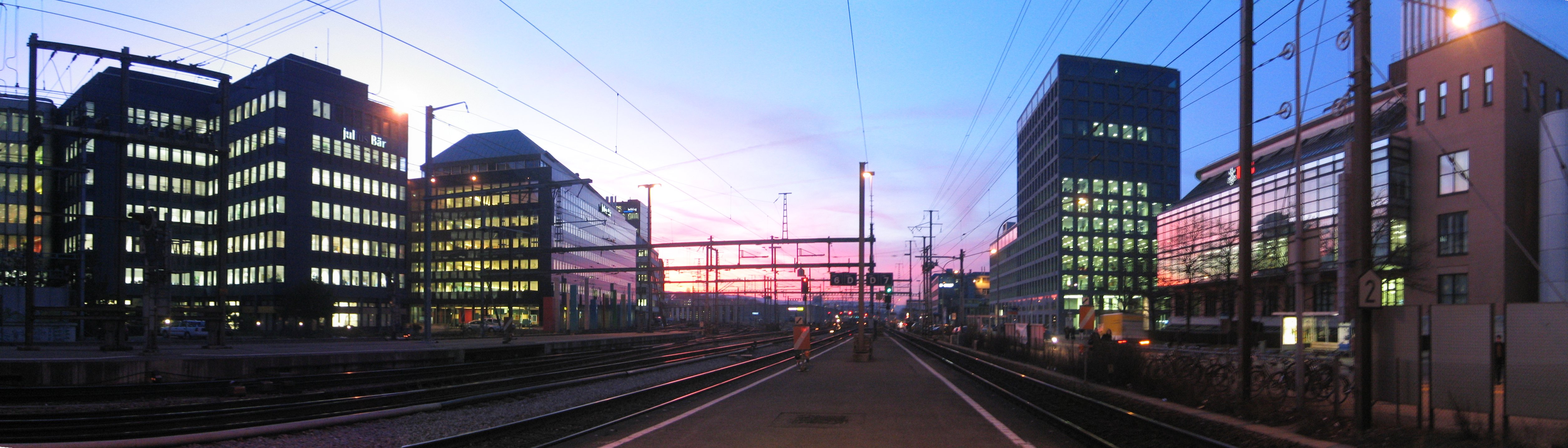 A panorama